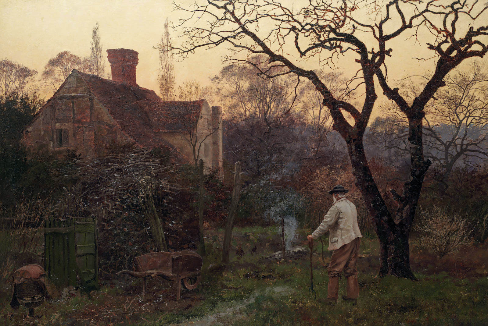 Evening, Brockham oil on canvas 51 x 76cm circa 1890